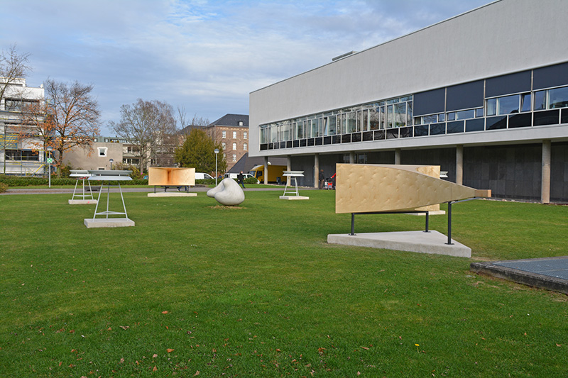 The artwork Schwingungen - Schwebungen by Edwin van der Heide